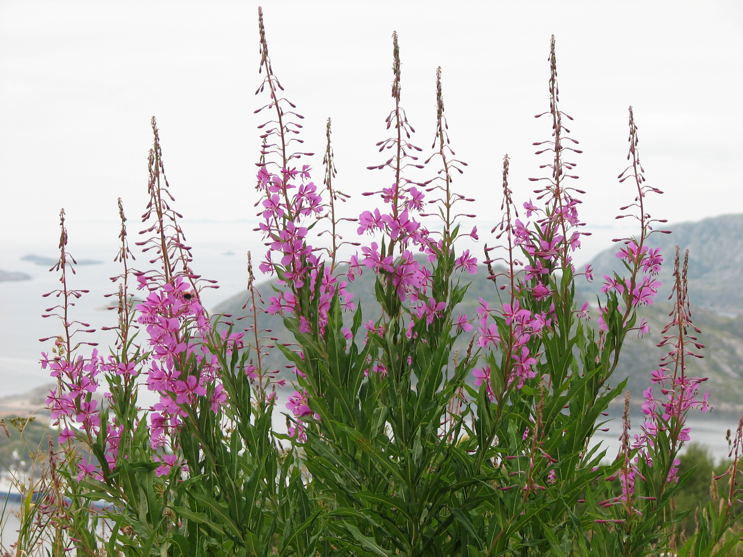 Fireweed, Epilobium angustifolium